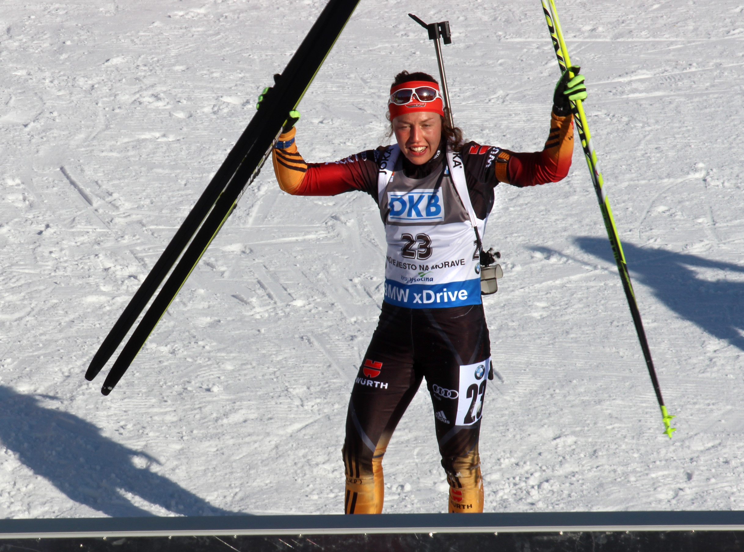 Laura Dahlmeier at Biathlon World Cup 2015 in Nové Město, Czech Republic – sprint women